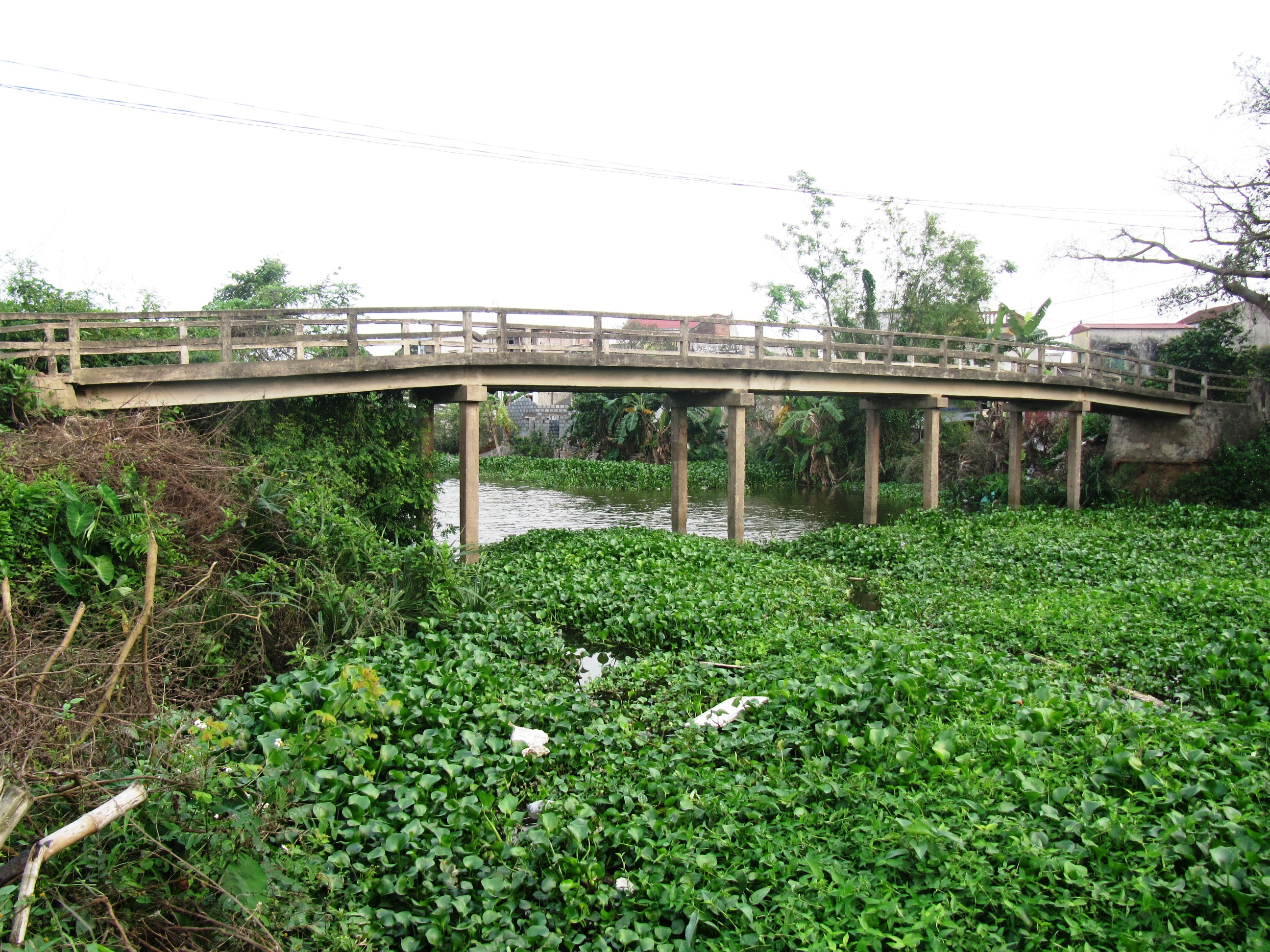 Hung Doai Bridge, built in 1970, crossing the Sa Lung River in Hong Viet commune, Thai Binh province.